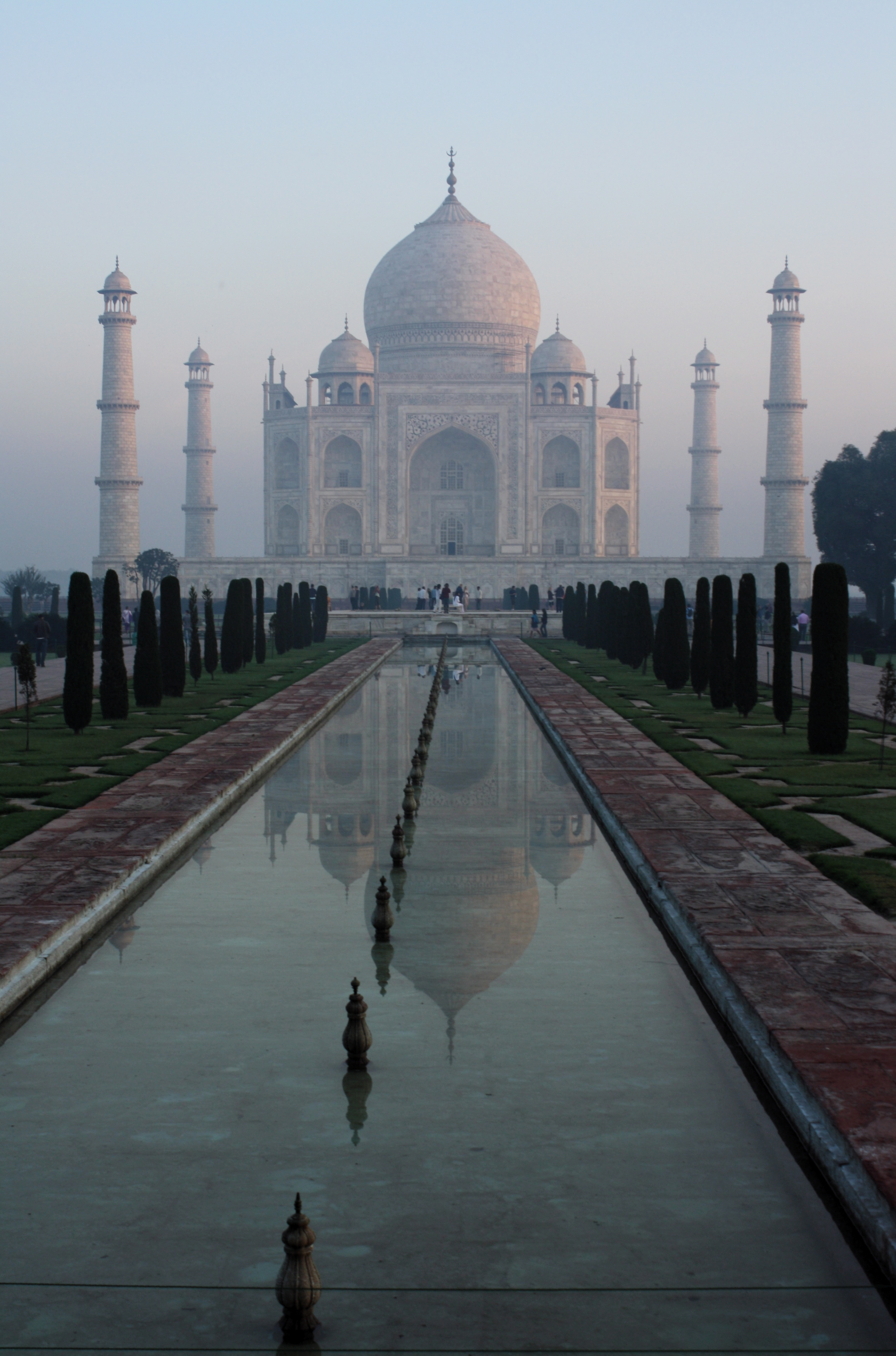 We went at Sunrise and it was stunning!